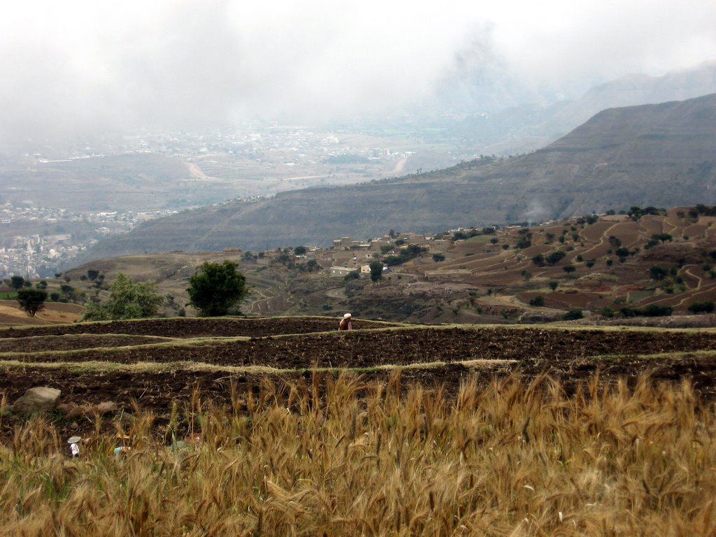 weat and man in crops, Jibla